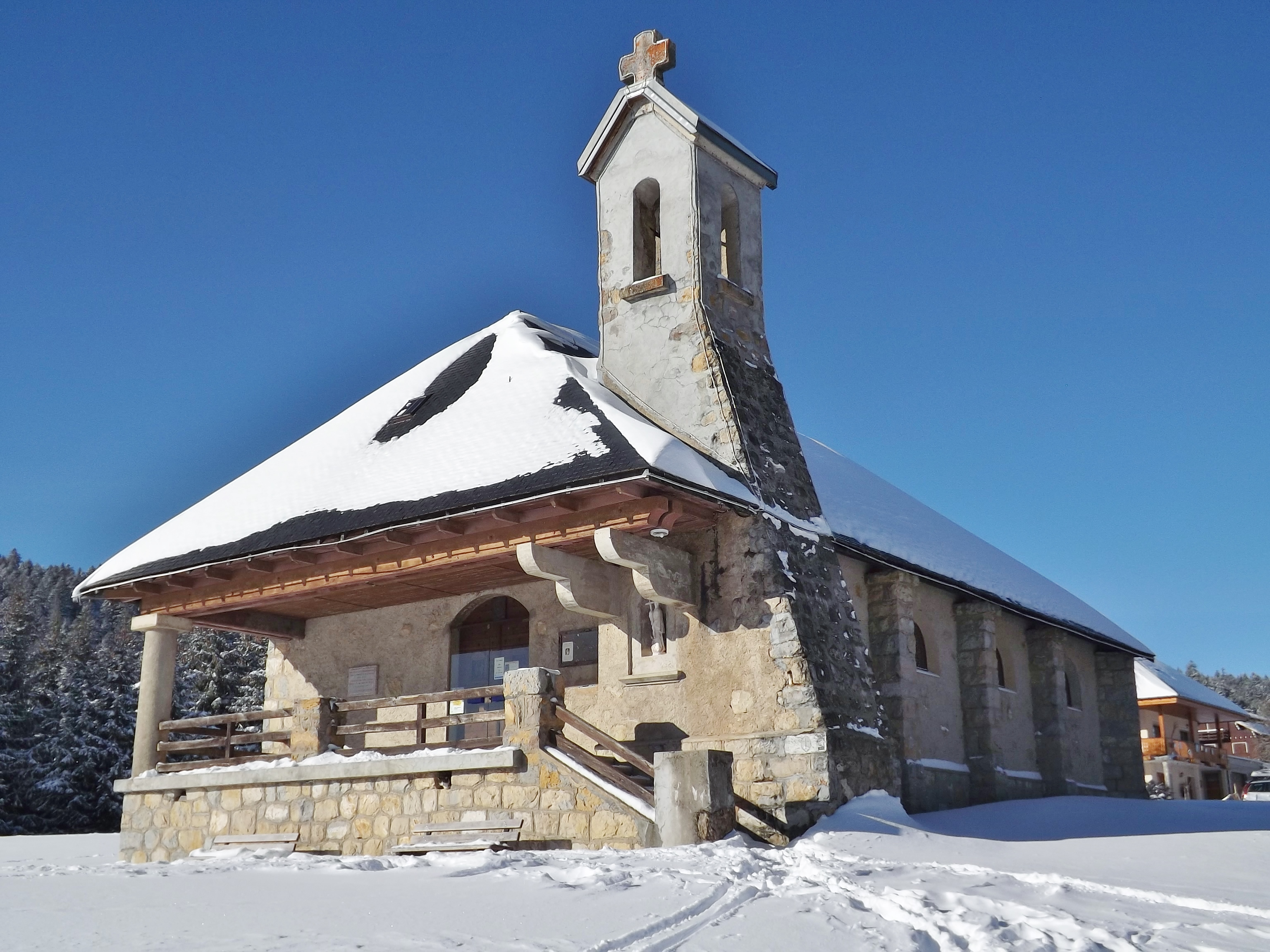 Sight in winter, of Notre-Dame des Neiges chapel of La Féclaz ski resort, on the commune of Les Déserts, Savoie, France.